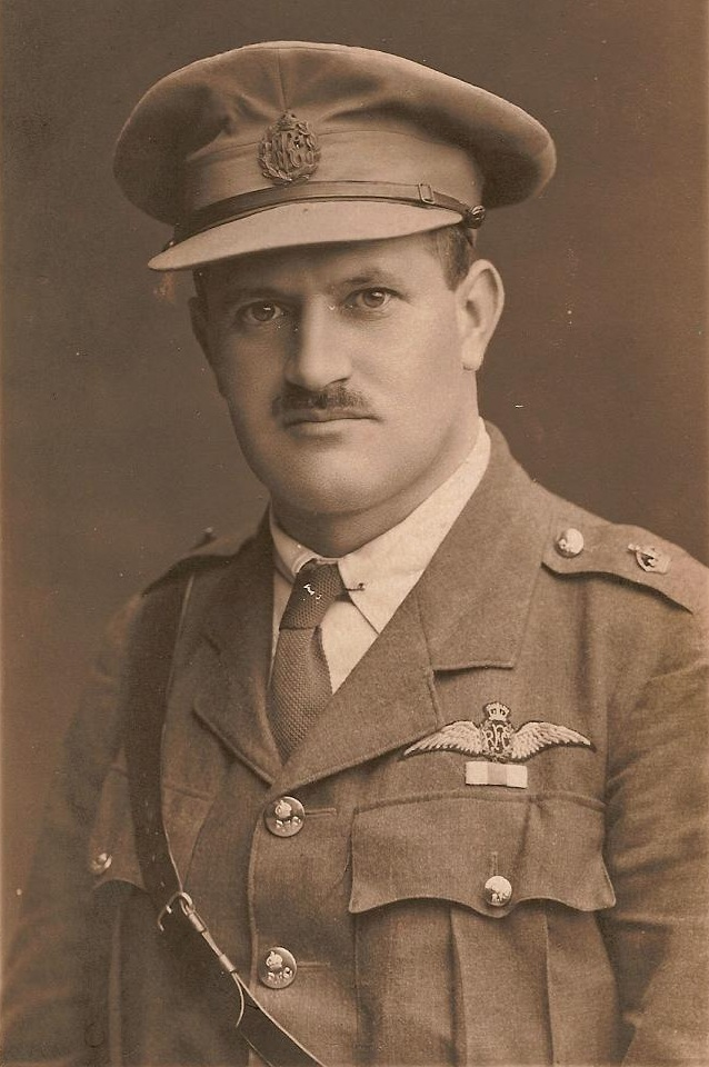 Captain Harold Blackburn, Royal Flying Corps after award of the Military Cross in January 1916.